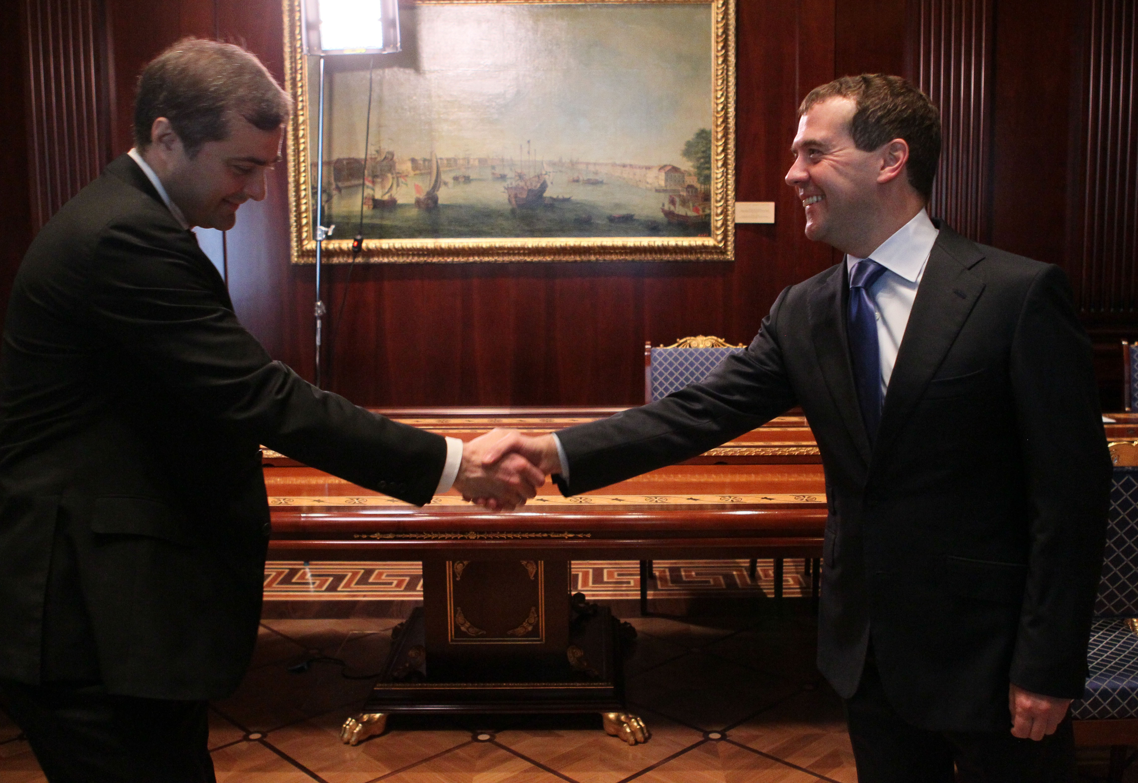 Russian Prime Minister Dmitry Medvedev and Deputy Prime Minister — Head of Government Staff Vladislav Surkov